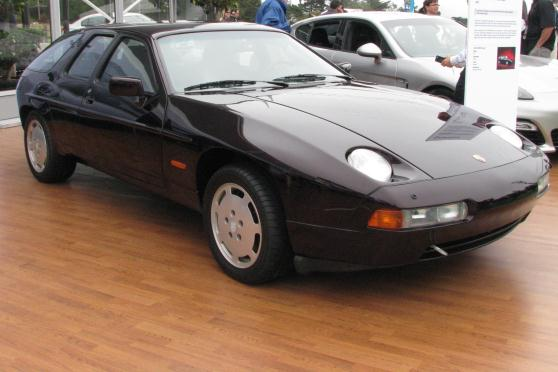 Porsche H50, a four-door 928 concept, photographed at the 2012 Pebble Beach Concours d'Elegance